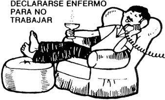 A graphic from a de-classified CIA manual air-dropped over Nicaragua in the 1980s. The entire publication is available online from numerous sources, including